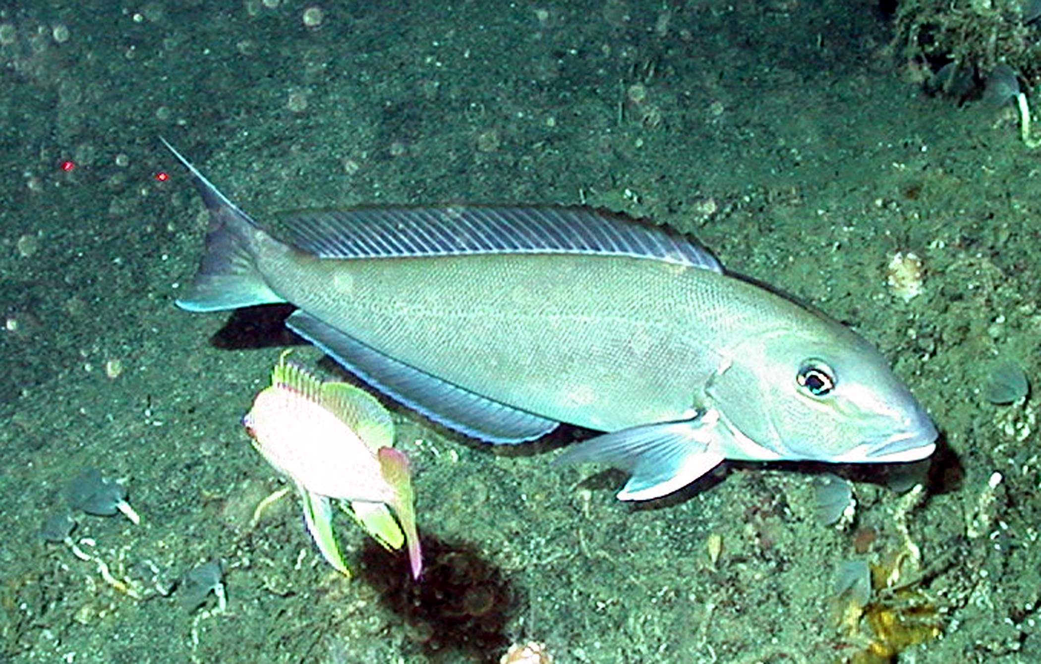 A great northern tilefish (Lopholatilus chamaeleonticeps).